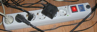 Surge and noise protector. Most hV6.